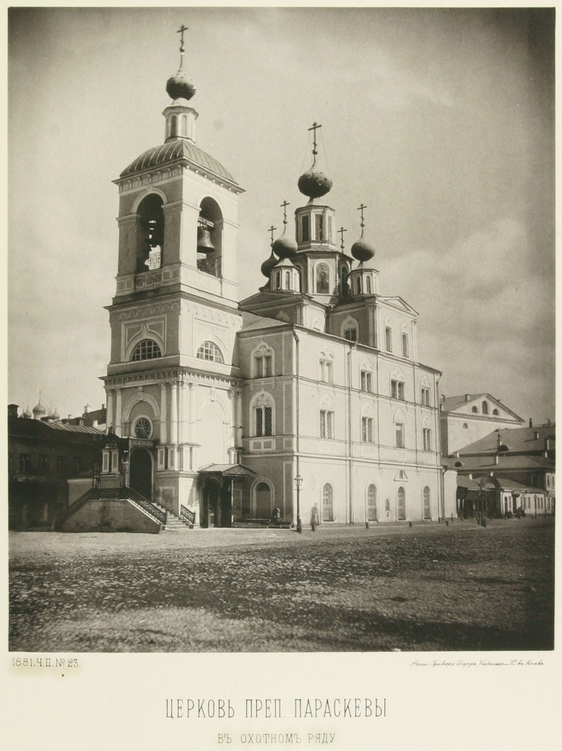 Church of St. Paraskeva at Okhotny Ryad, Moscow